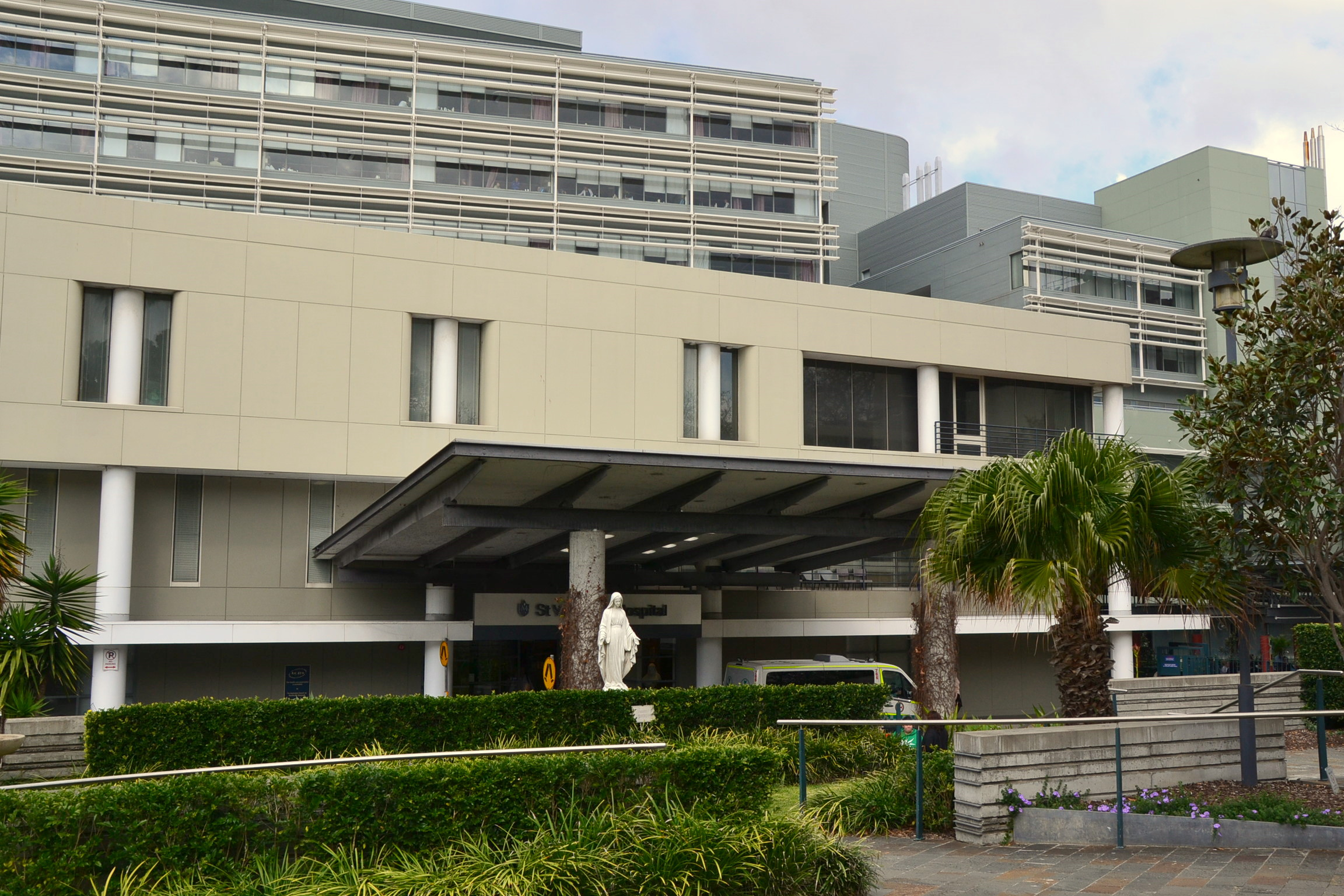 st vincent's hospital, sydney